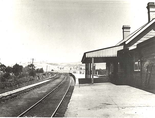 Albion Park Railway Station Dated: 1940 Digital ID: 17420_a014_a014000828 Rights: We'd love to hear from you if you use our photos. Many other photos in our collection are available to view and browse on our website using Photo Investigator.